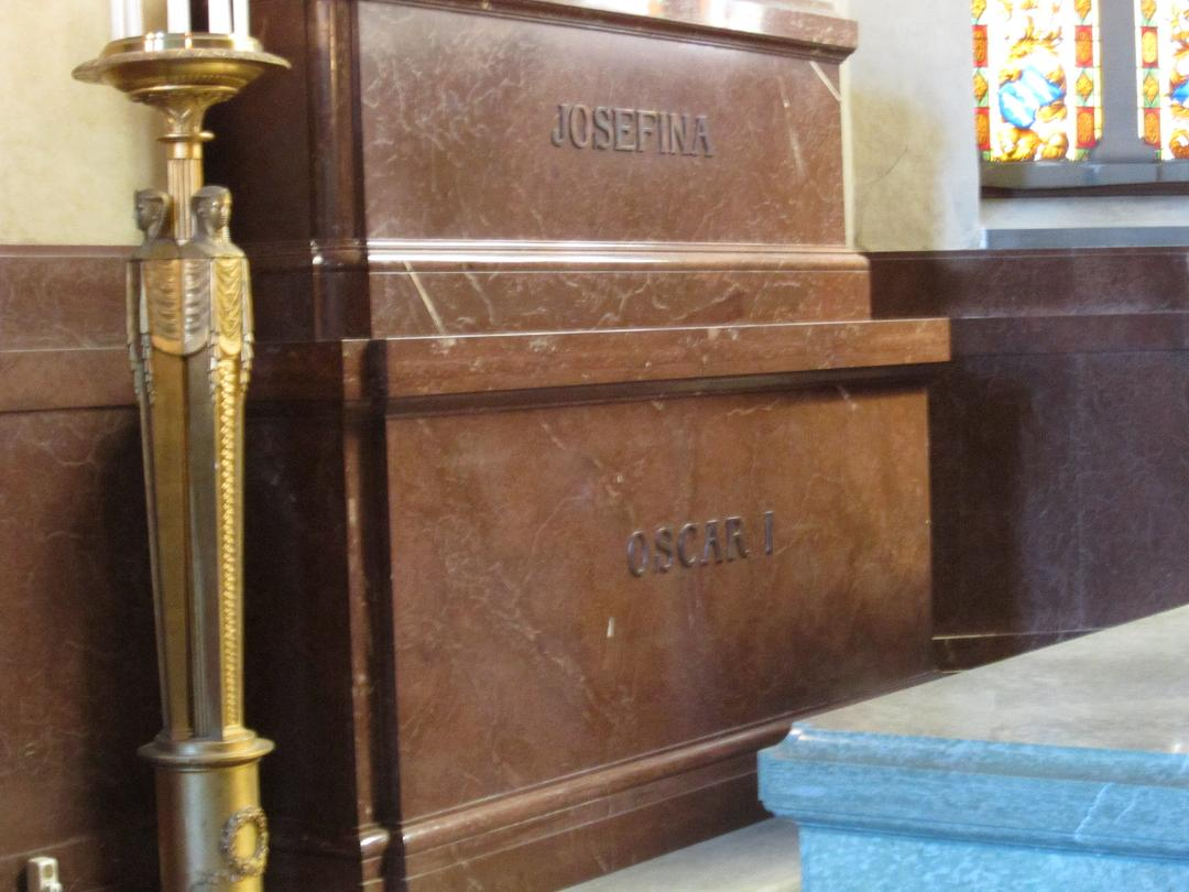 Graves of King Oscar I and Queen Josephine (above) of Sweden and Norway stacked from the ground floor of the Bernadottean Chapel at Riddarholm ChurchPlace: Stockholm, Sweden